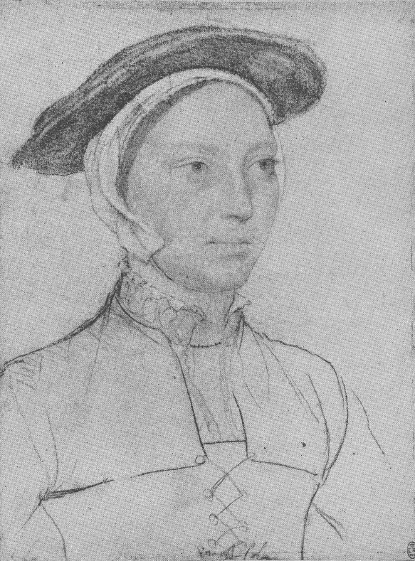 The face is considerably worn by rubbing; the insensitive lines of the spencer (jacket) are by later hands (Parker, p. 49). Holbein has noted "damast sh" (black damask) at the bottom of the sheet.